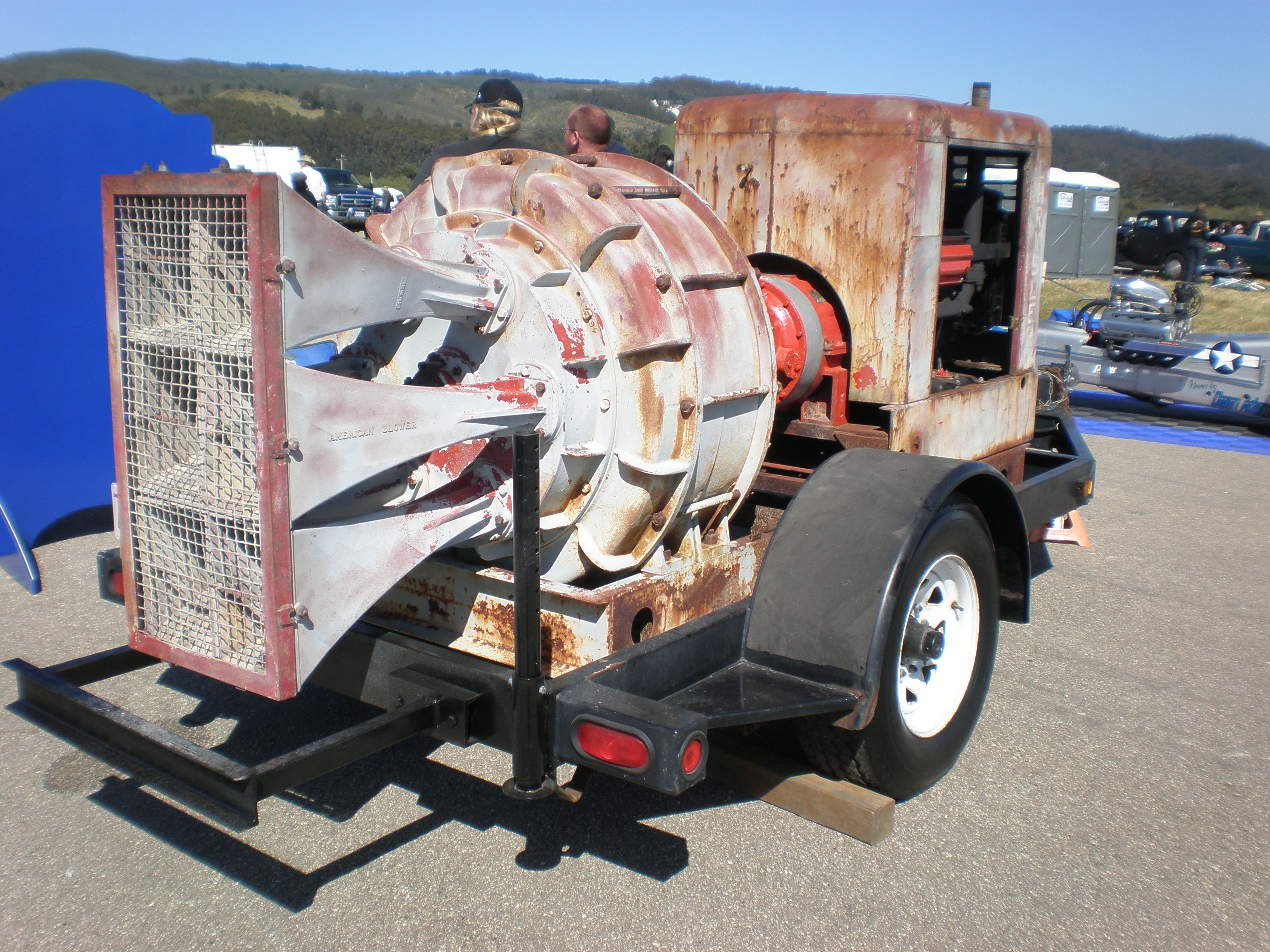 A 1953 Chrysler Victory Siren at the Pacific Coast Dream Machines vehicle show at the Half Moon Bay Airport in Half Moon Bay, California.